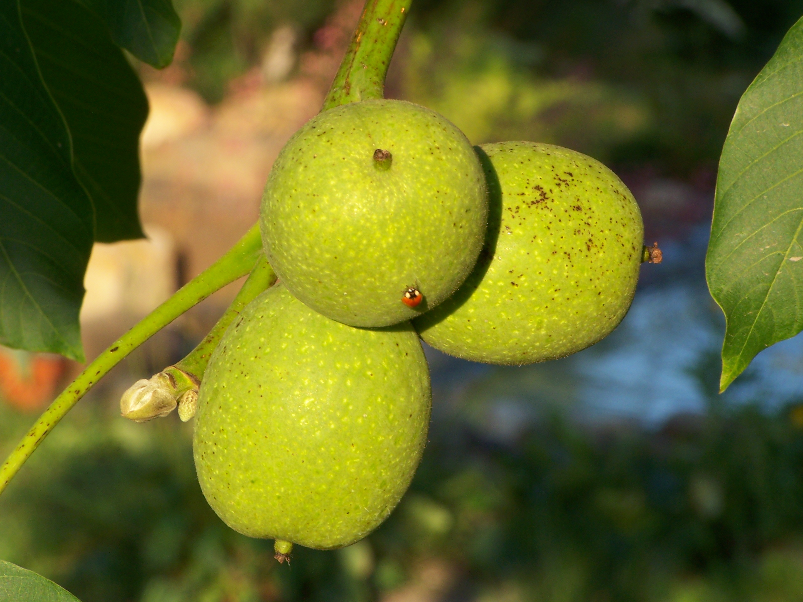 Persian Walnut nuts (Juglans regia, familia: Juglandaceae).